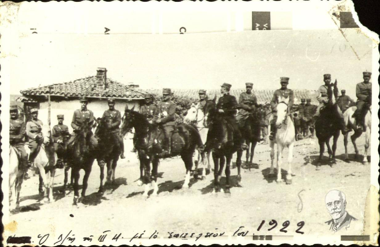 Commander of the 3rd Greek division Georgios Kordzas with his staff. Asia Minor 1922Türkçe: Yunan 3. Tümeni komutanı Yeoryos Kordzas kurmayları ile beraber. Anadolu 1922